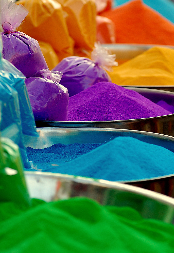 Rangoli colors